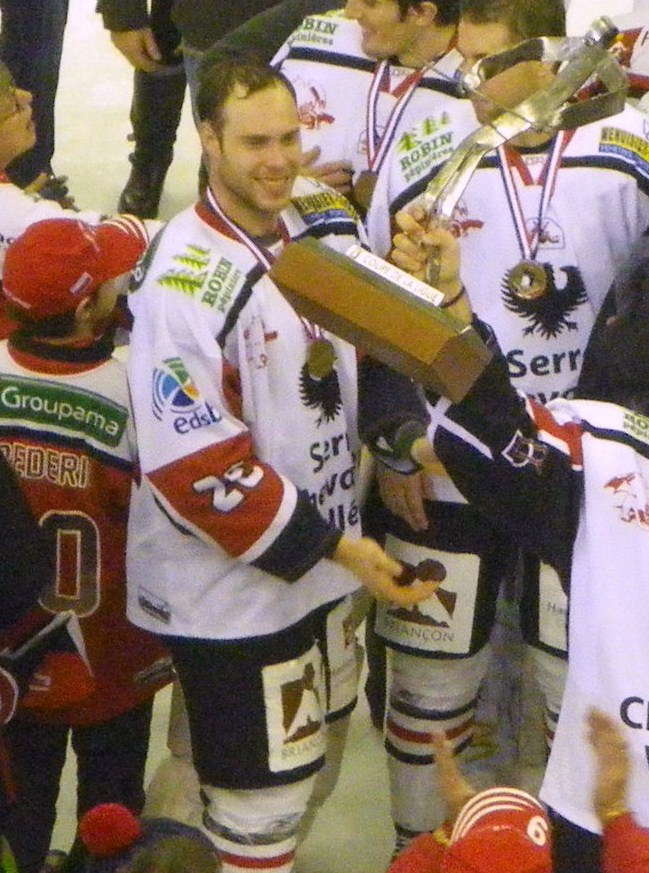 Braden Walls (with Briançon Diables Rouges), canadian ice hockey player winning french league cup 2012.